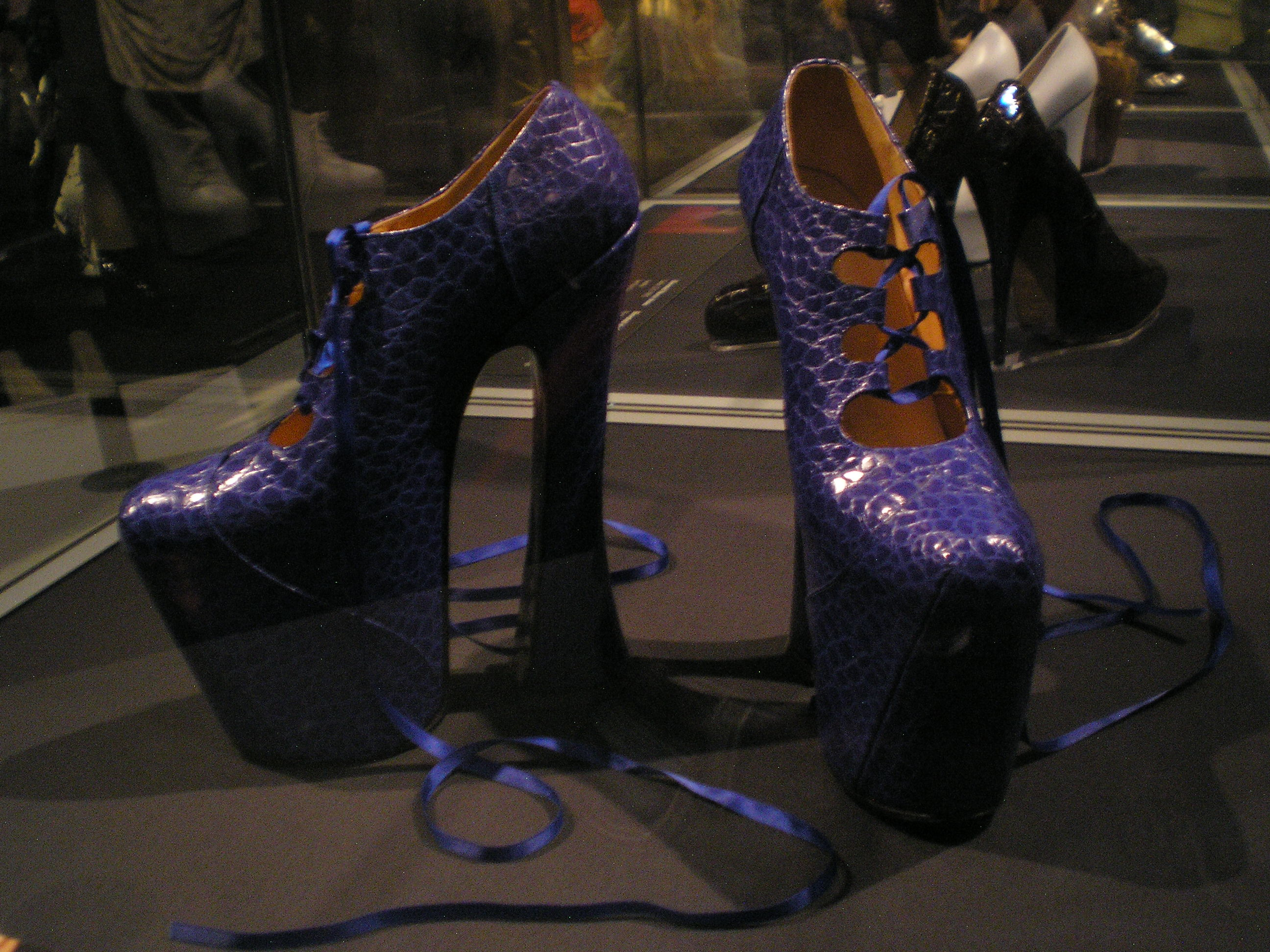 A pair of Vivienne Westwood designed shoes on display at a Sheffield exhibition in which model Naomi Campbell famously fell over in